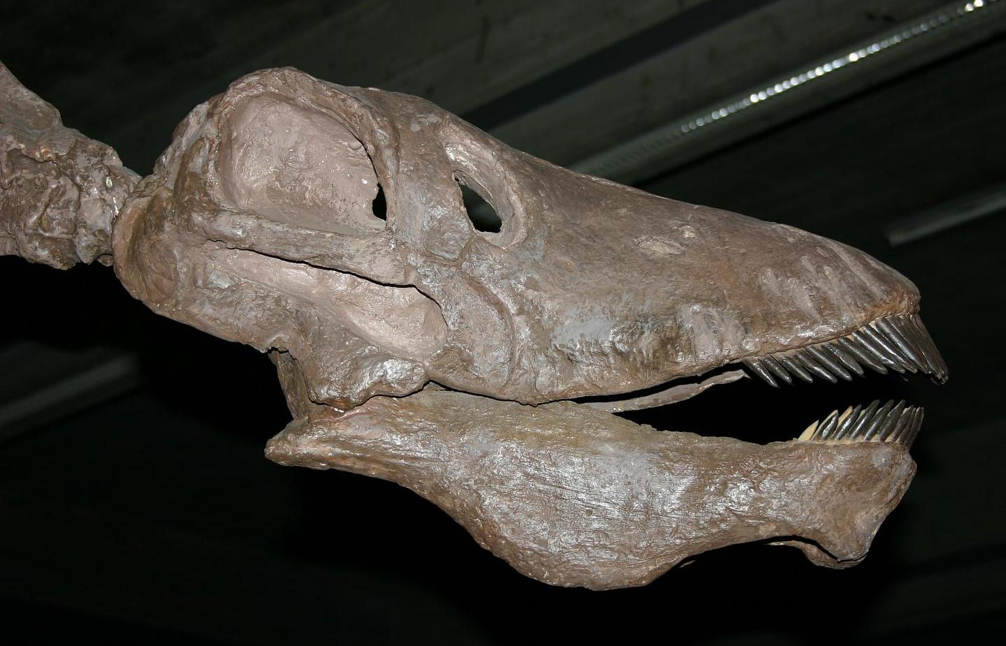 Reconstructed Amargasaurus skull.